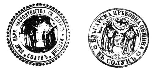 Seals of bulgarian exarchist church in Solun / Thessaloniki